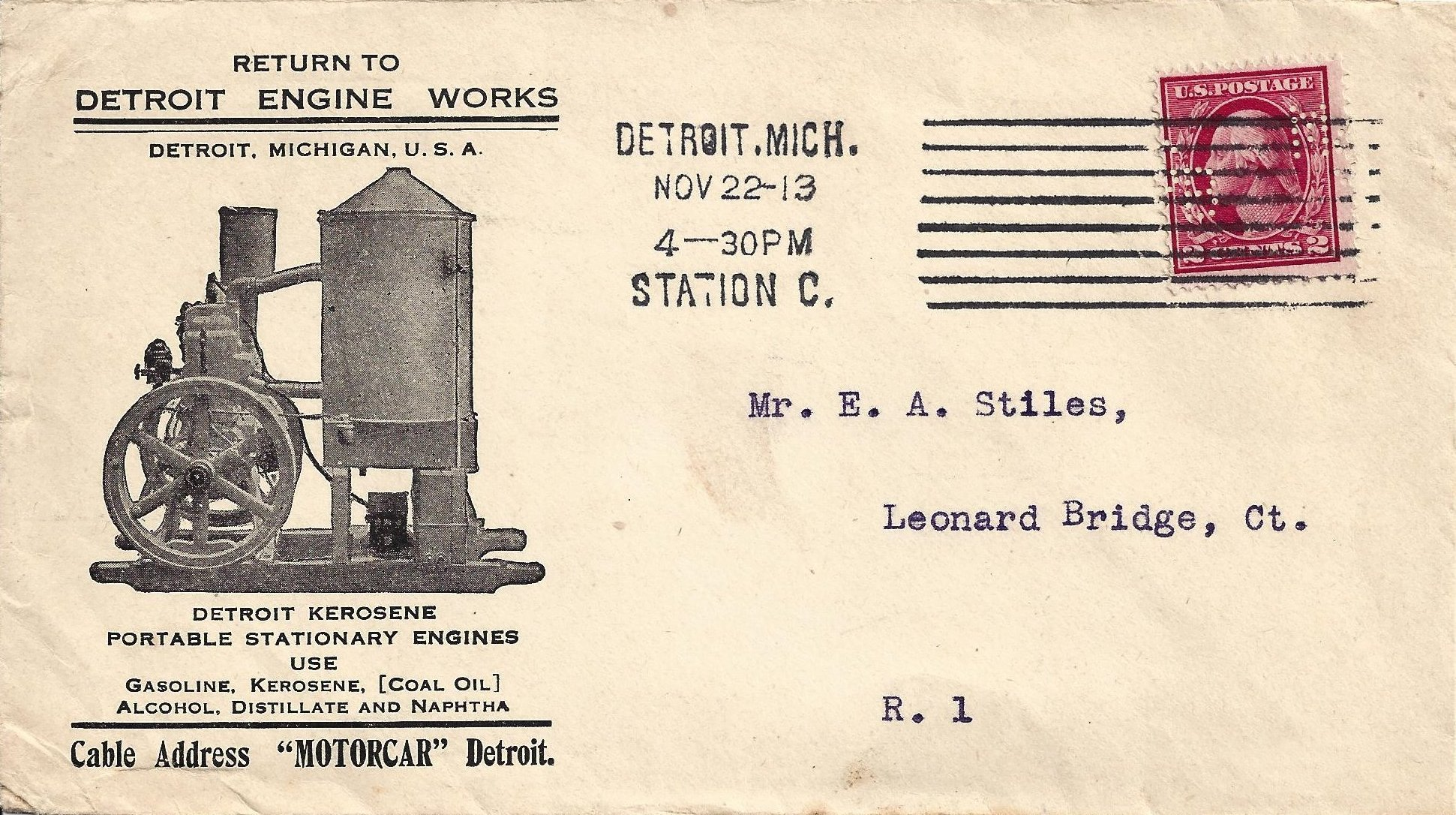 Detroit Engine Works envelope with corner card and MSB (Michigan Steel Boats) perfin stamp